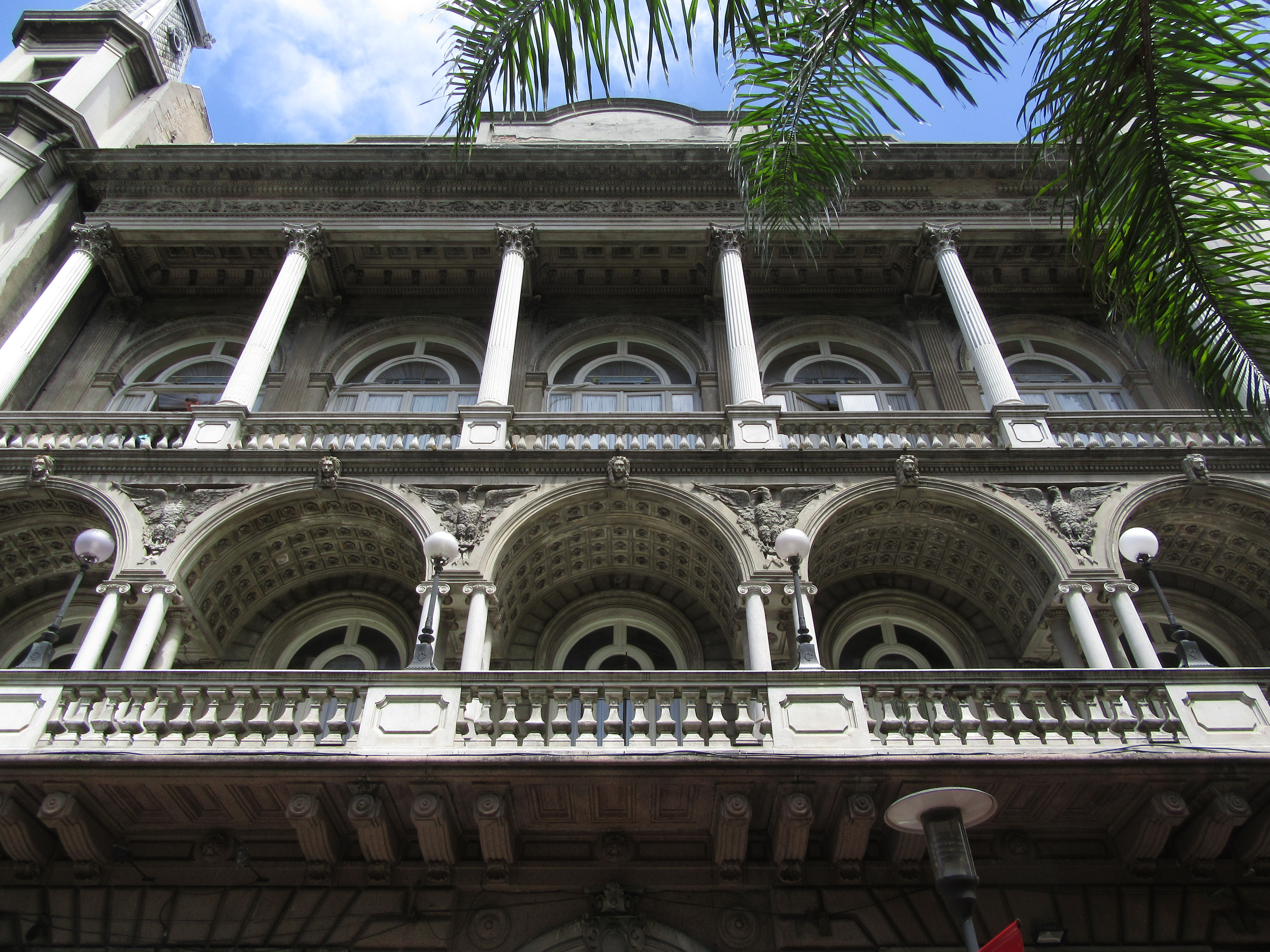 Montevideo